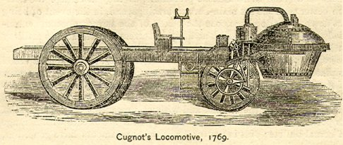 Nicolas-Joseph Cugnot's steam auto, scanned from 7 August, 1869 issue of Appleton's Journal of Popular Literature, Science, and Art.